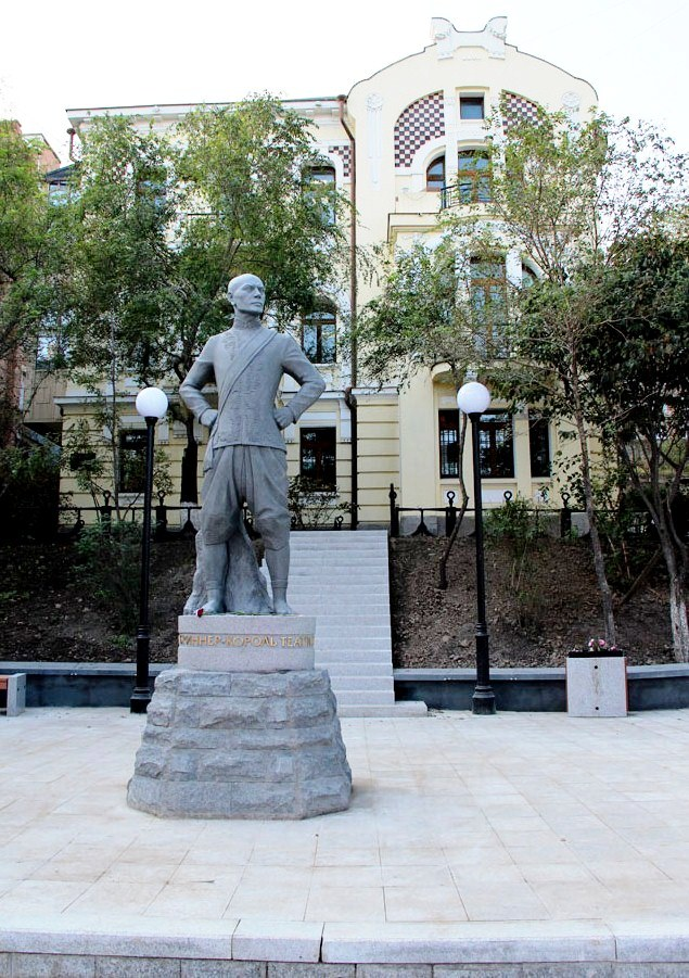 Statue of Yul Brynner in front of home where he was born in Vladivostok, Russia.